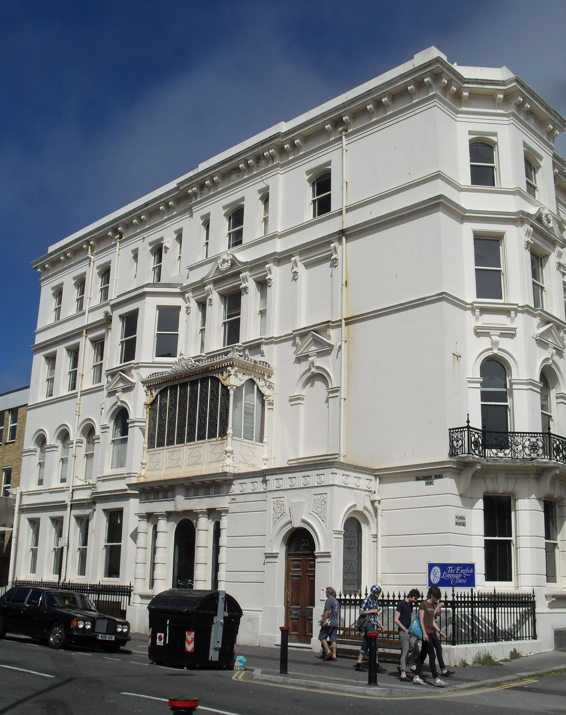 33 Palmeira Mansions, Church Road, Hove, City of Brighton and Hove, England. Built in 1883-84 to the design of H.J. Lanchester. This house, at the end of the terrace, was fitted out with a rich and ostentatious interior between 1889 and 1899 for A.W. Mason. This has been well preserved, and the building (now a language school) is accordingly listed at Grade II* by English Heritage (NHLE Code 1204933)